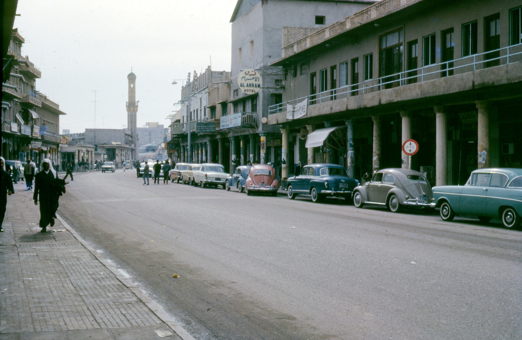 The "new road", kuwait city 1961